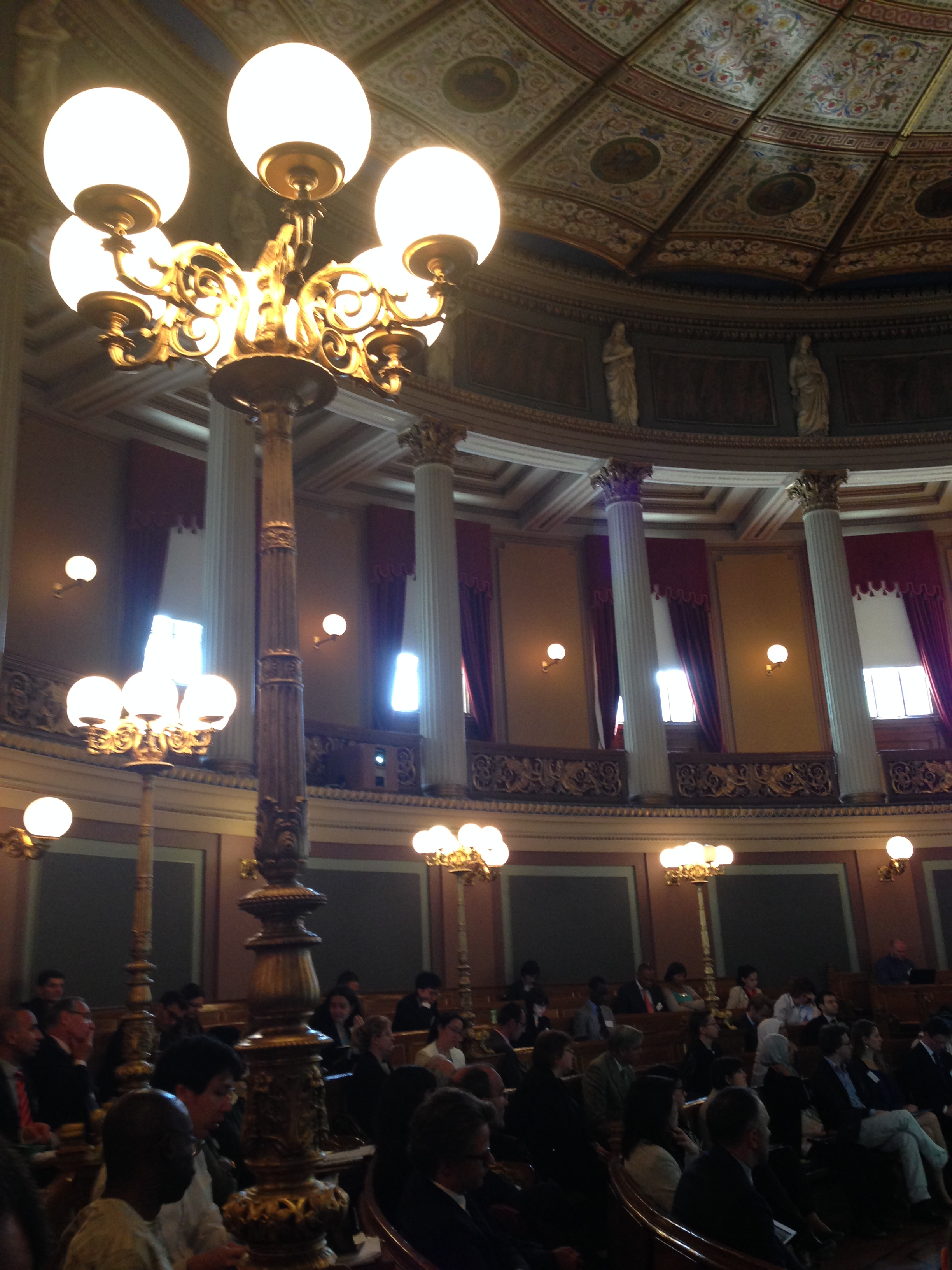 The Gamle festsal (Old Assembly Hall) in the Domus Academica of the University of Oslo on Karl Johans gate, Oslo, Norway, during a session of the IX World Congress of Constitutional Law (16–20 June 2014).